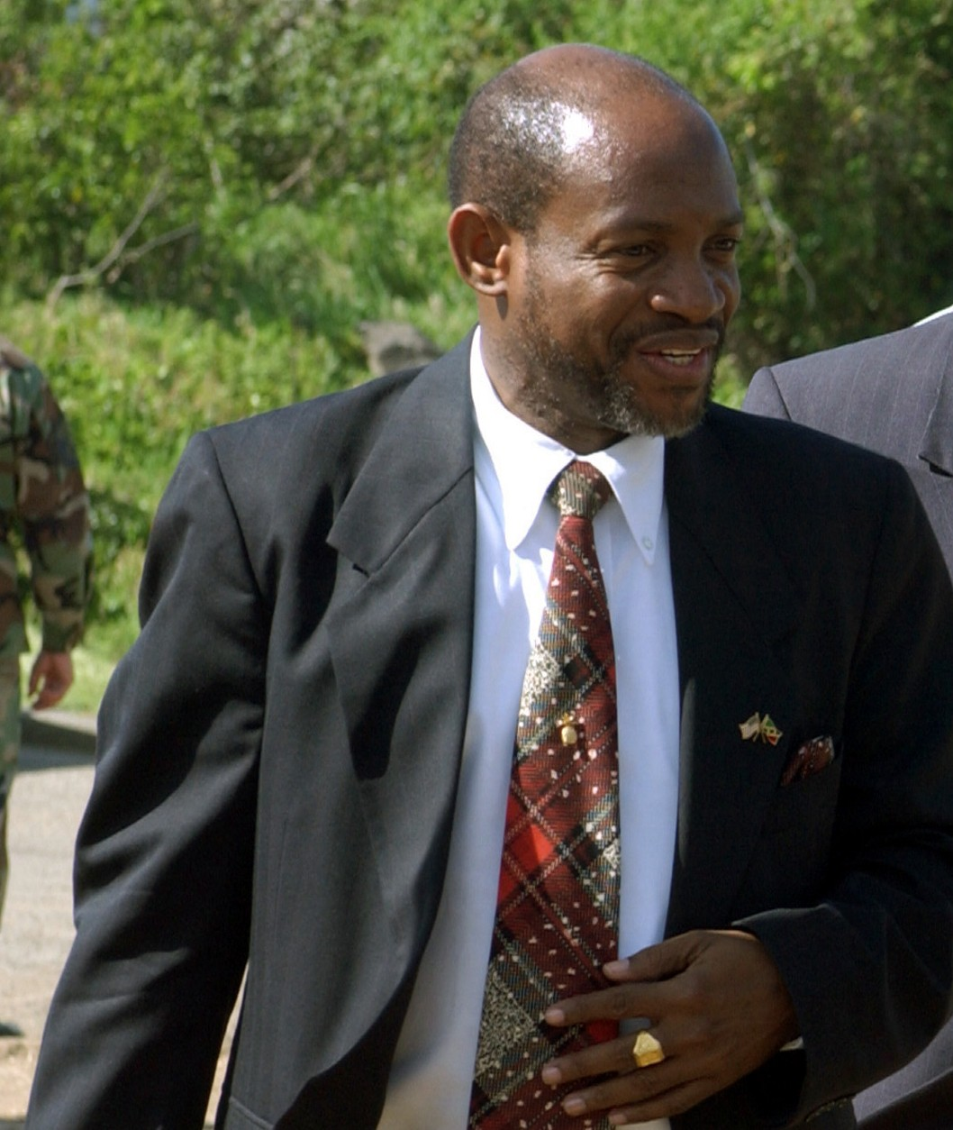 US Air Force (USAF) Technical Sergeant (TSGT) Lynette Dominguez (right), escorts The Honorable Doctor Denzil Douglas (foreground left), Prime Minister of St. Kitts-Nevis, as he arrives for the ribbon cutting ceremony at the newly constructed Saint Paul's Health Center, located on the island of St. Kitts-Nevis during Exercise NEW HORIZONS ST KITTS-NEVIS 2003. (Released to Public) DoD photo by: SSGT JOHN HOUGHTON, USAF